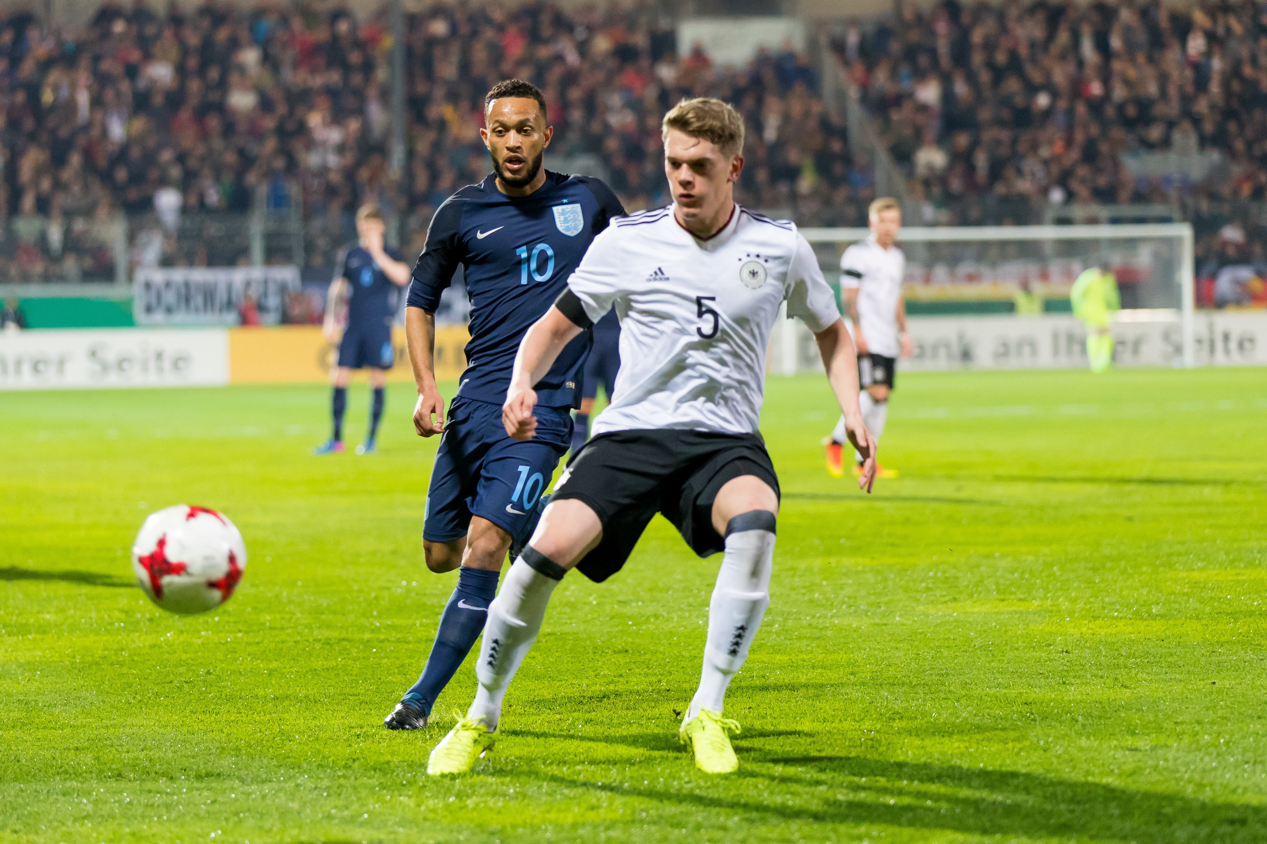 Football U21 Germany vs England (1:0) Team Germany 12 Julian Pollersbeck (1. FC Kaiserslautern) 1 Marvin Schwäbe (Dynamo Dresden) 23 Odisseas Vlachodimos (Panathinaikos Athen) 16 Kevin Akpoguma (Fortuna Düsseldorf) 3 Yannick Gerhardt (VfL Wolfsburg) 5 Matthias Ginter (Borussia Dortmund) 22 Benjamin Henrichs (Bayer 04 Leverkusen) 15 Marc-Oliver Kempf (SC Freiburg) 4 Niklas Stark (Hertha BSC) 13 Jeremy Toljan (1899 Hoffenheim) 2 Mitchell Weiser (Hertha BSC) 18 Nadiem Amiri (1899 Hoffenheim) 10 Maximilian Arnold (VfL Wolfsburg) 25 Hany Mukhtar (Brøndby IF) 7 Max Meyer (FC Schalke 04) 19 Janik Haberer (SC Freiburg) 21 Gideon Jung (Hamburger SV) 20 Levin Öztunali (1. FSV Mainz 05) 17 Maximilian Philipp (SC Freiburg) 9 Davie Selke (RB Leipzig) 27 Thilo Kehrer (FC Schalke 04) Team England 1 Jordan Pickford (Sunderland) 2 Mason Holgate (Everton) 13 Angus Gunn (Manchester City) 21 Christian Walton (Brighton) 16 Kortney Hause (Wolverhampton) 5 Jack Stephens (Southampton) 15 Rob Holding (Arsenal) 12 Joe Gomez (Liverpool) 3 Ben Chilwell (Leicester City) 6 Alfie Mawson (Swansea City) 22 Sam McQueen (Southampton) 4 Nathaniel Chalobah (Chelsea) 14 Will Hughes (Derby County) 20 Ruben Loftus-Cheek (Chelsea) 10 Lewis Baker (Vitesse Arnheim) 18 John Swift (Reading) 23 Jack Grealish (Aston Villa) 8 Harry Winks (Hotspur) 19 Cauley Woodrow (Fulham) 9 Tammy Abraham (Bristol City) 17 Solly March (Brighton) 11 Jacob Murphy (Norwich) during Fussball U21 Deutschland vs England at Brita-Arena, Wiesbaden, Hessen, Germany on 2017-03-24, Photo: Sven Mandel